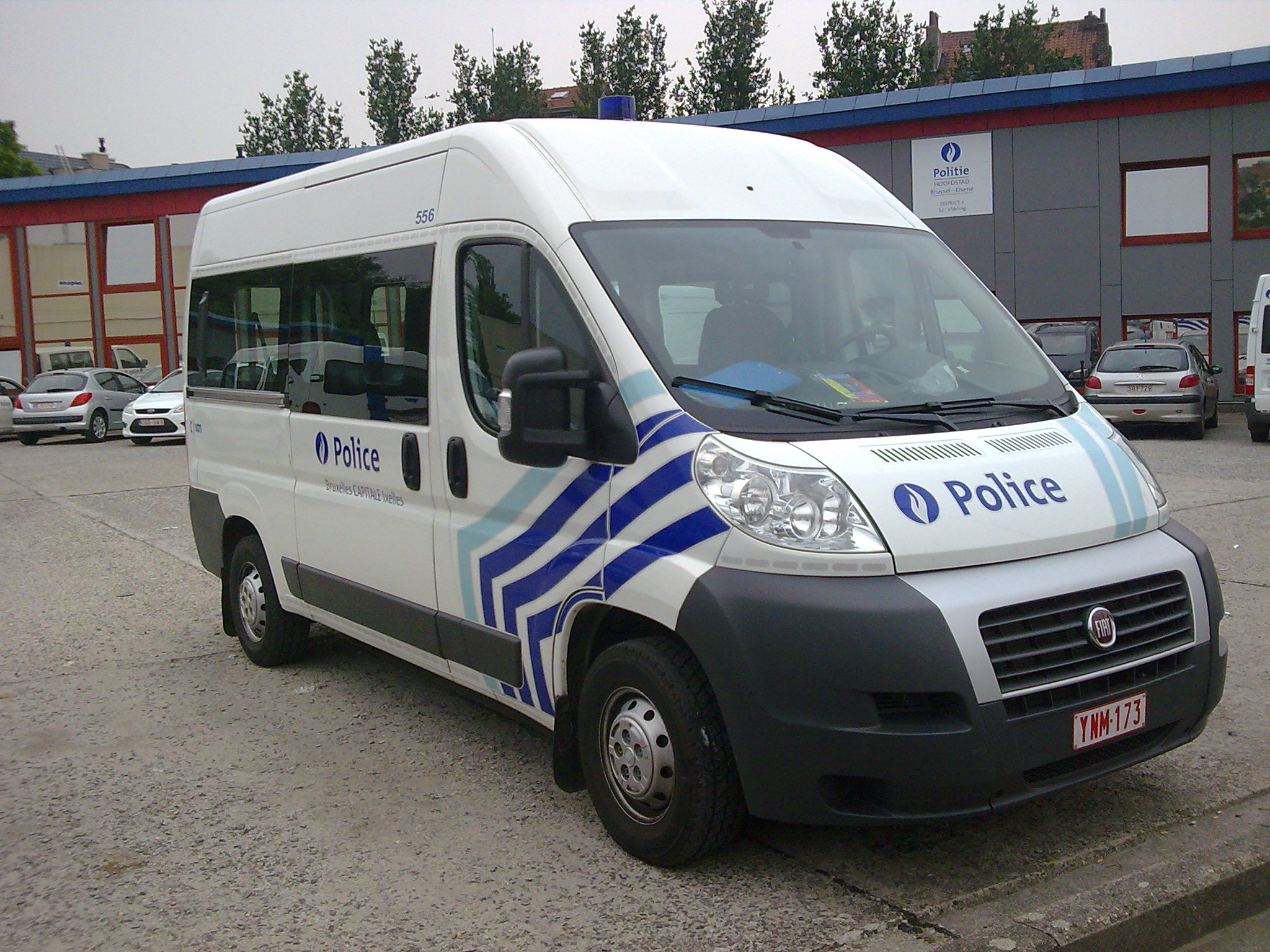 Fiat Ducato used by Belgian Police